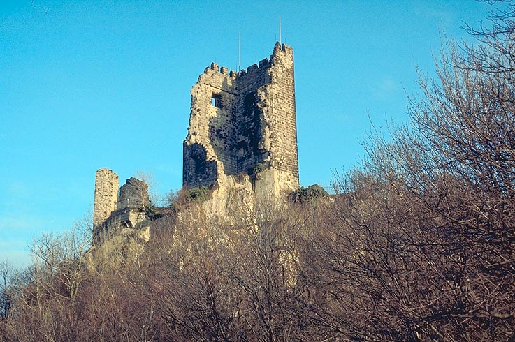 Ruin of the castle Drachenfels in Königswinter.